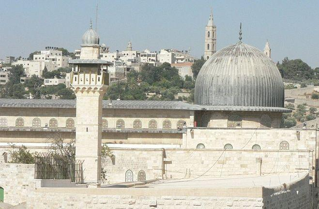 Al-Aqsa Mosque, Jerusalem, Israel - view toward east מסגד אל-אקצא, ירושלים, ישראל - מבט מזרחה